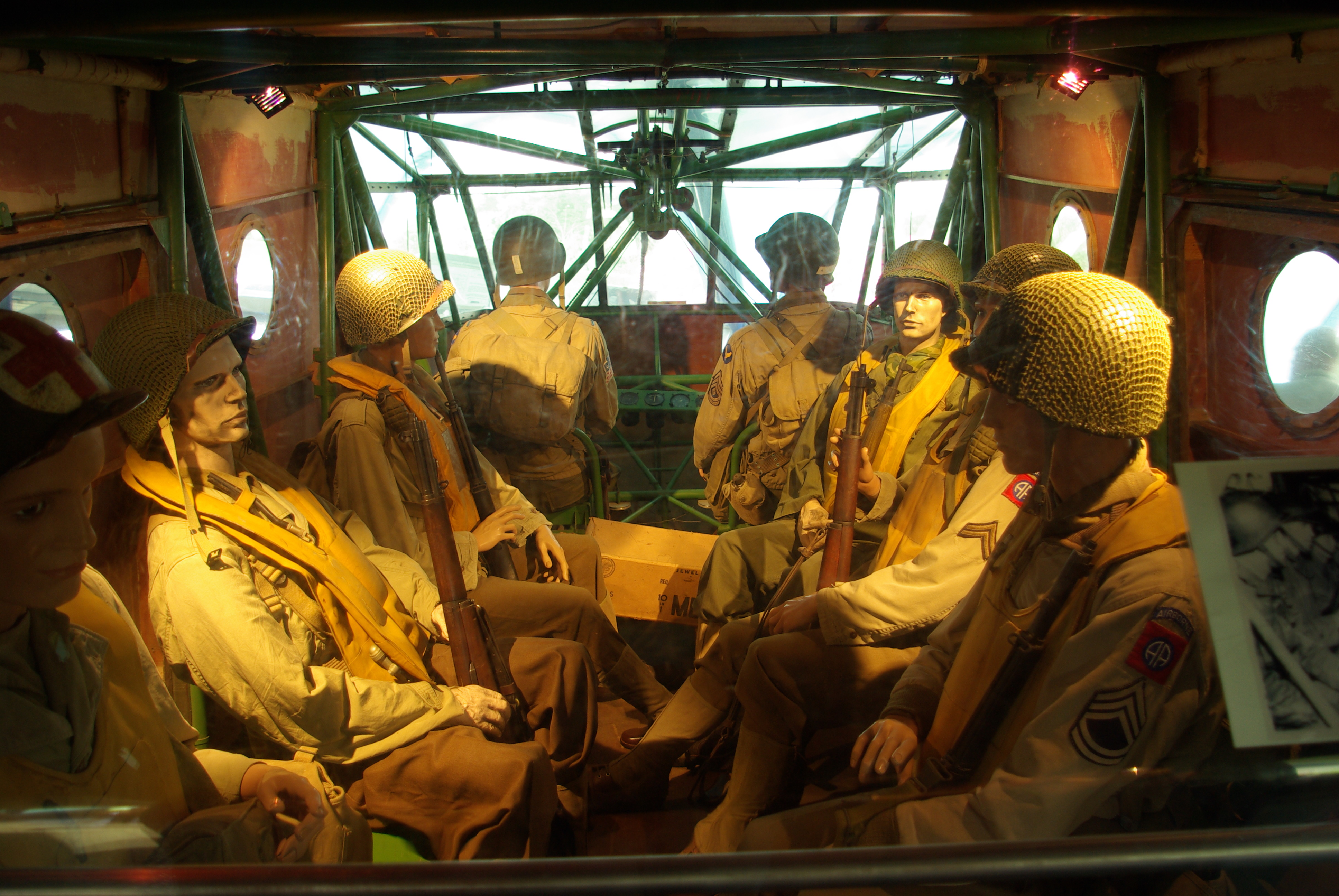 Inside view of the front fuselage of a WACO CG-4.